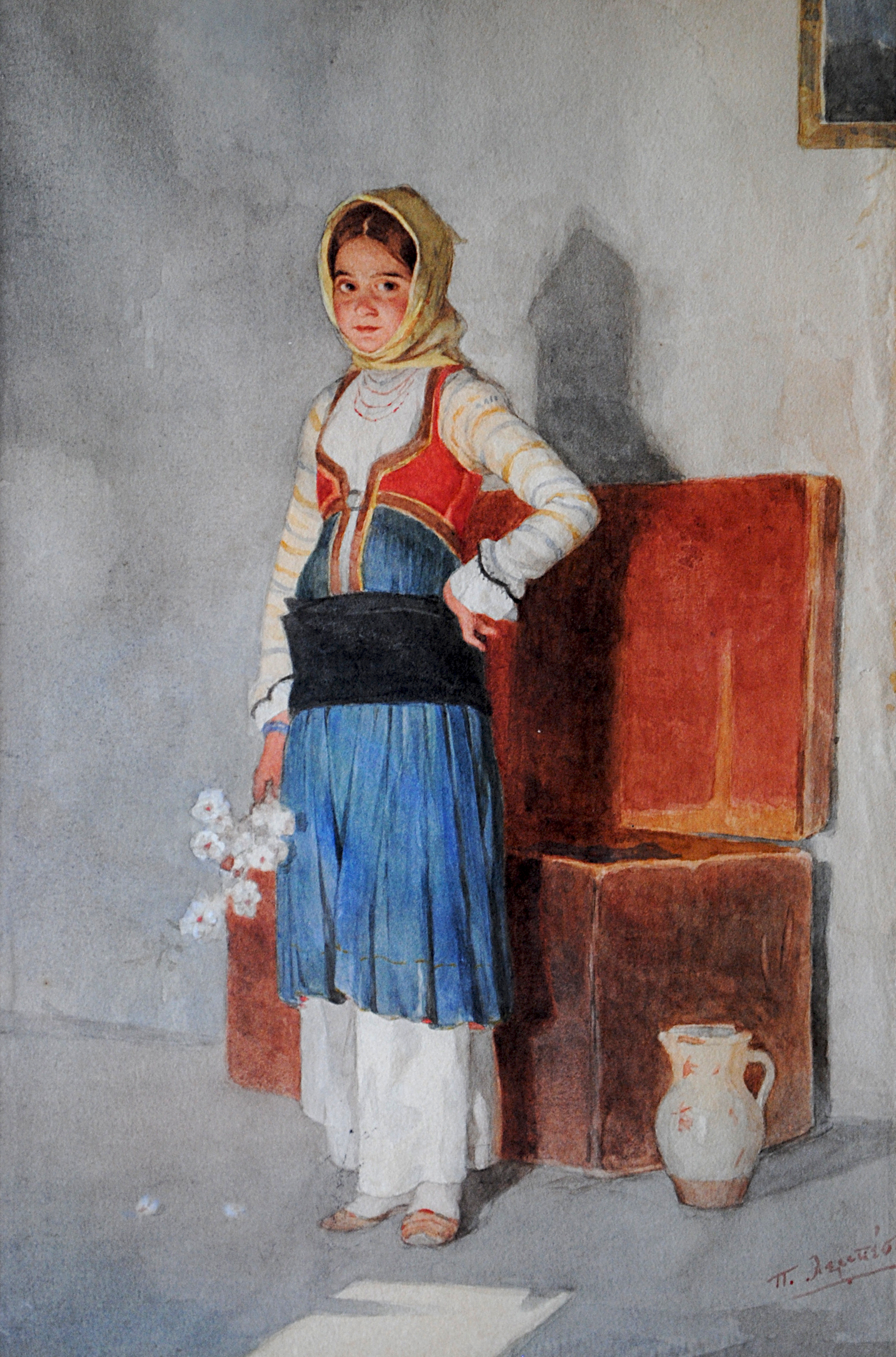 Lebesis Polichronis, Young girl with local costume, Watercolor on paper, 30 x 20 cm, Private collection